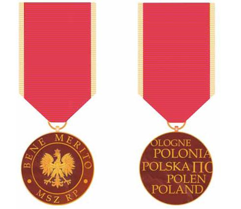 Bene Merito badge of honor, conferred by the Ministry of Foreign Affairs (Poland)